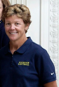 University of Michigan softball head coach Carol Hutchins during a photo op with the 2005 national championship team at the White House in 2005. Original caption: Photo Op/Remarks to the 2004 and 2005 NCAA Sport Champions. State Floor. South Lawn. President George W. Bush stands with members of the University of Michigan Women's Softball team Tuesday, July 12, 2005, during Championship Day at the White House. White House photo by David Bohrer